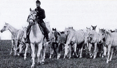 Shagya arabian horses